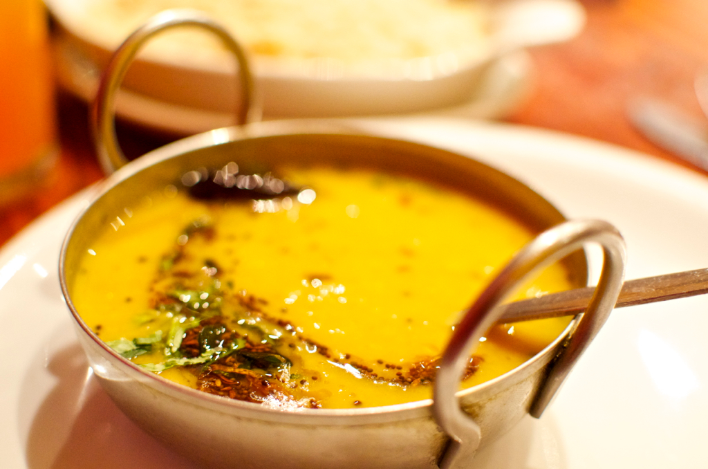 Pulses such as lentils (green, red, Le Puy), chick peas, dried green peas, split toor, some beans and other regional varieties are a common ingredient of a popular soup-like dish, across all of India. The dish is however much thicker than Western soups, and called dal or daal or pappu or paruppu. It is one of the primary sources of protein for a large number of Indian people, particularly in the rural area. Above is a daal that has been been treated to tadka/tarka or chaunk, a tempering process that draws out the essential oils of many aromatic spices such as cumin seeds, black mustard seeds, fennel seeds, fenugreek seeds, asafoetida, cassia, cloves, curry leaves, chopped onion, garlic, or tejpat leaves (in some cases, chilli pepper is added, others not).